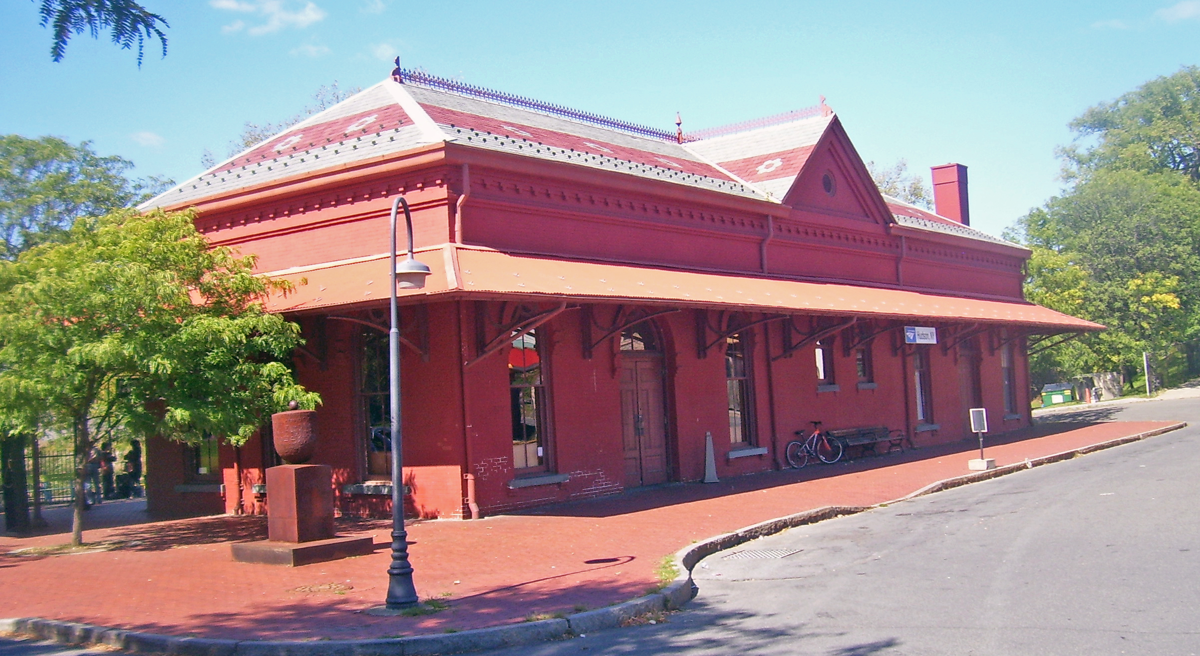 Train station, Hudson, NY, USA. Supposedly oldest station in New York in continuous use